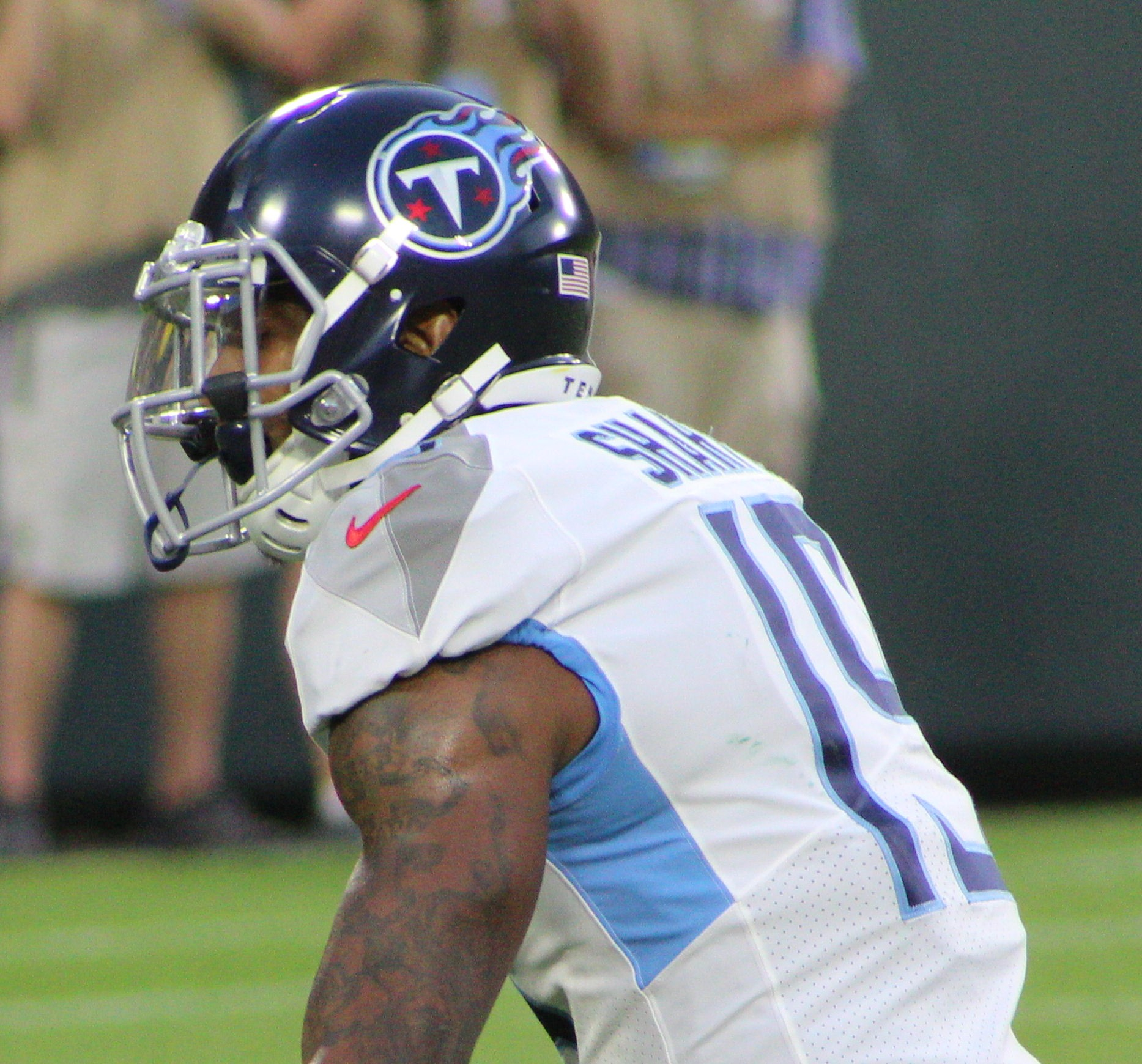 Tajaé Sharpe, Tennessee Titans at Green Bay Packers (Preseason), August 9, 2018